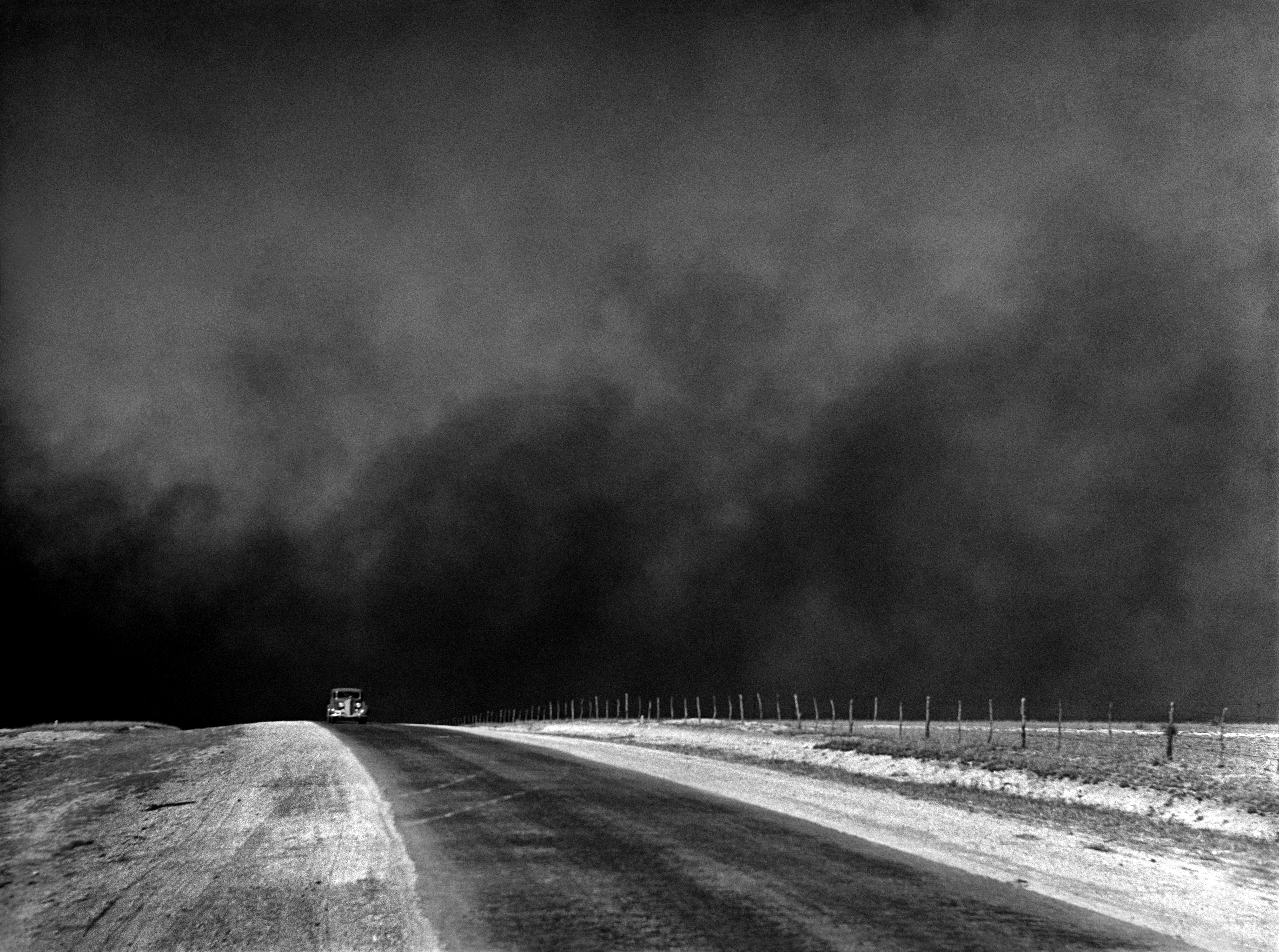 An unidentified car on a road in the Texas Panhandle with heavy clouds of dust in the sky - a typical phenomenon of the Dust Bowl.